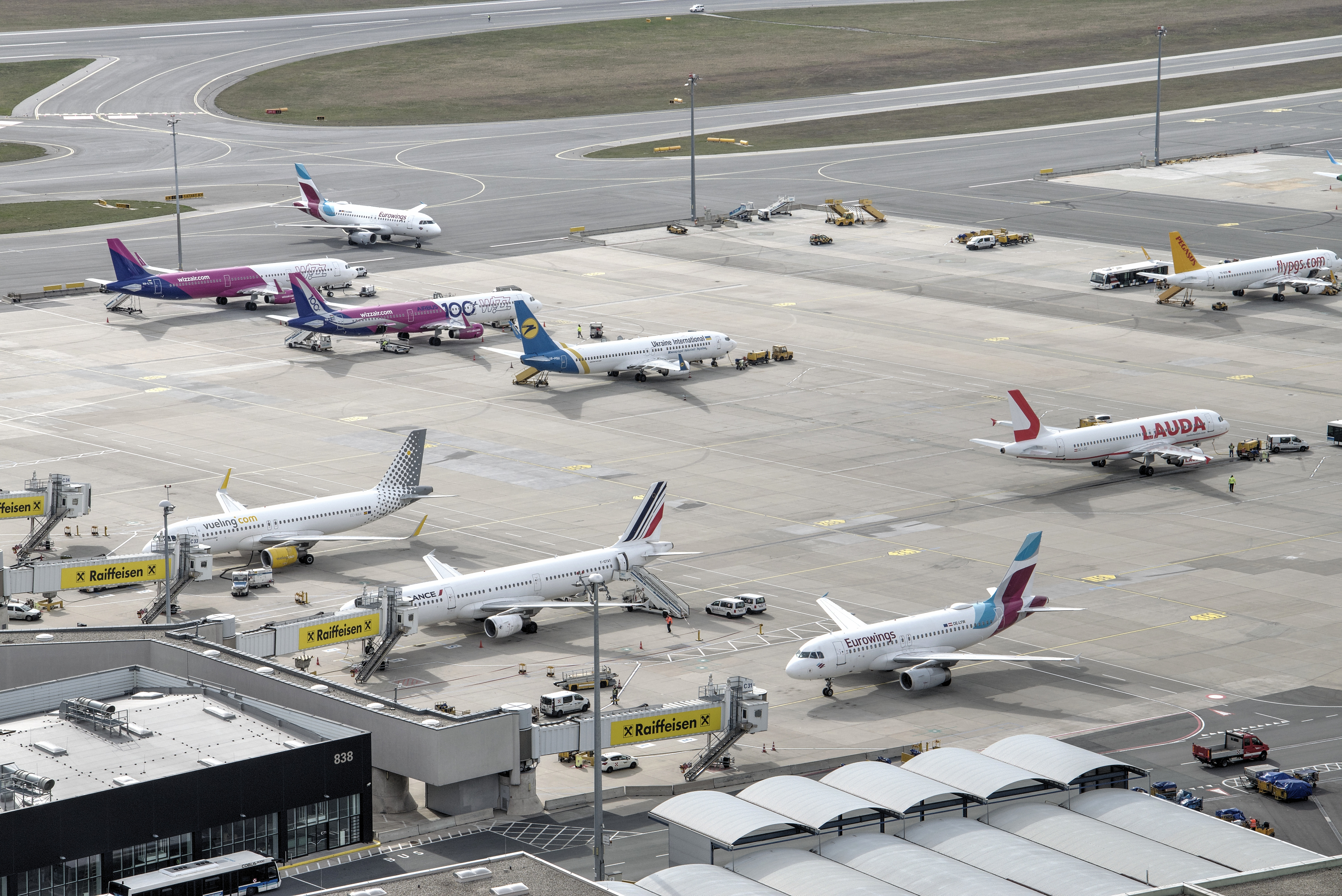 Vienna International Airport from the Air Traffic Control Tower. Airbus 319-132, D-AGWA, Eurowings, Airbus 320-214, EC-MAH, Vueling, Airbus 321-212, F-GTAY, Air France, Airbus 321-231, HA-LTD, Wizz Air, Airbus 321-231, HA-LTG, Wizz Air, Boeing 737-8AS, UR-PSU, Ukraine International, Airbus 319-132, OE-LYW, Eurowings, Airbus 320-214, OE-LOO, Lauda, Airbus 320-214, TC-DCD, Pegasus Air